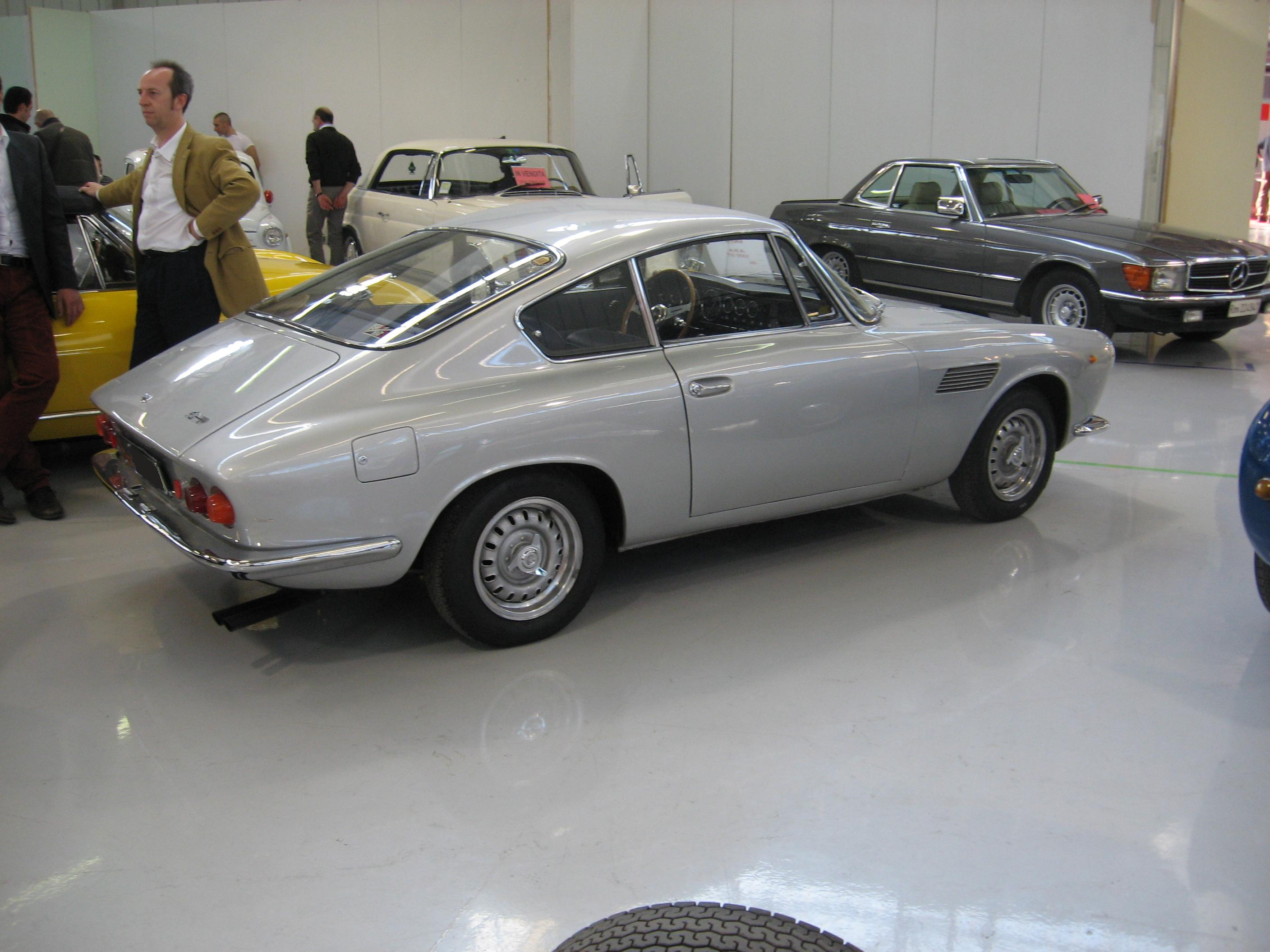 Subject: ASA 1000 GT Coupé Author: Luc106 Date: 18th March 2007 City/Country: Forlì (Italy) Event: Old Time Show I release all rights in the public domain.